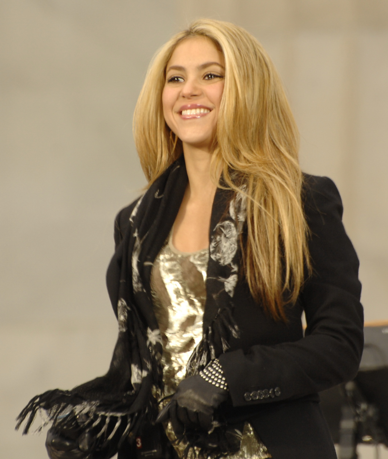 Colombian pop star Shakira performs at the Lincoln Memorial on the National Mall in Washington, D.C., Jan. 18, 2009, during the inaugural opening ceremonies. More than 5,000 men and women in uniform are providing military ceremonial support to the presidential inauguration, a tradition dating back to George Washington's 1789 inauguration.